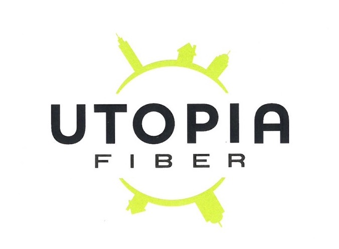 Utopia Internet Logo